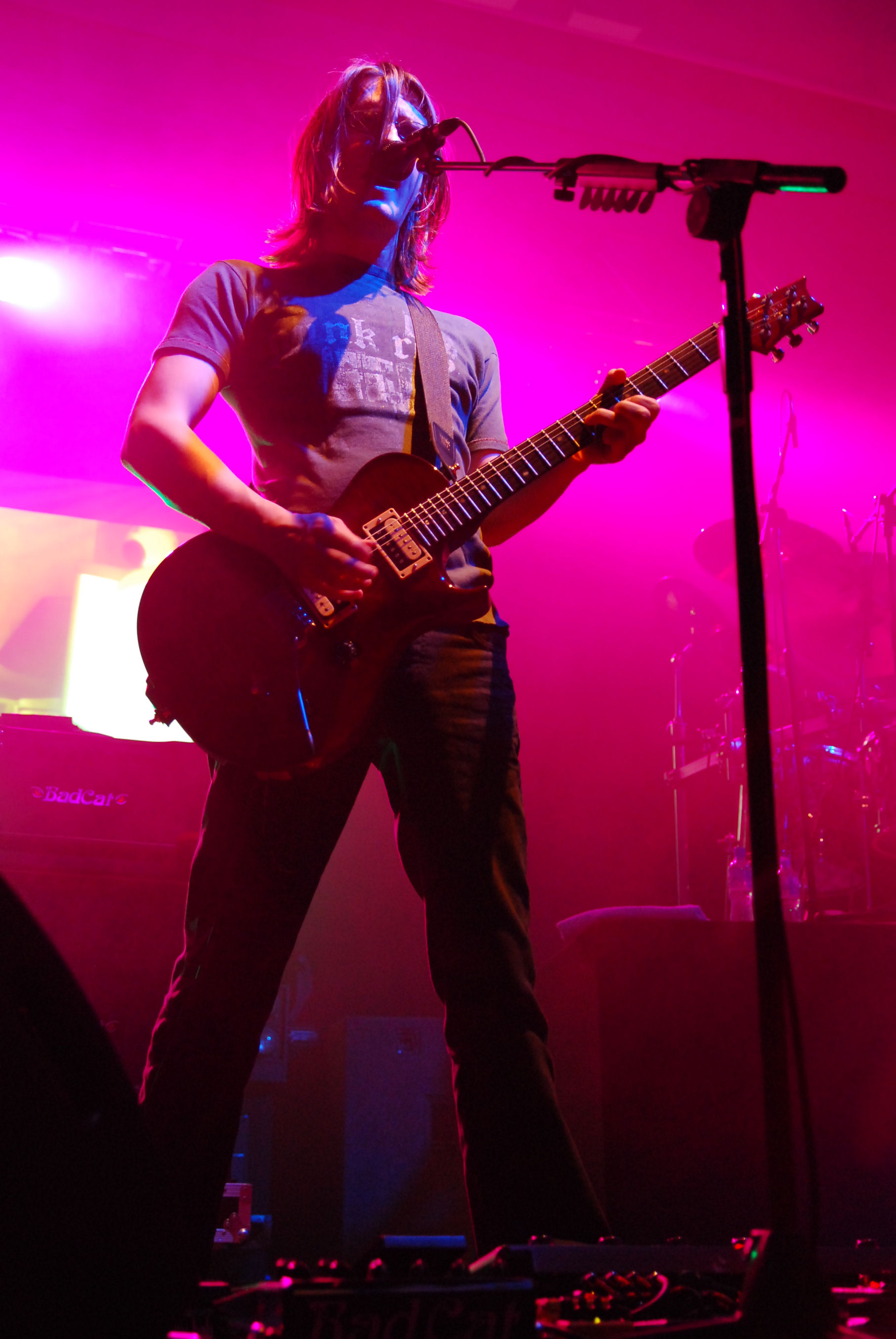 STEVEN_WILSON from Porcupine Tree during concert in TS Wisła in Kraków To zdjęcie powstało dzięki współpracy z Rock-Servis